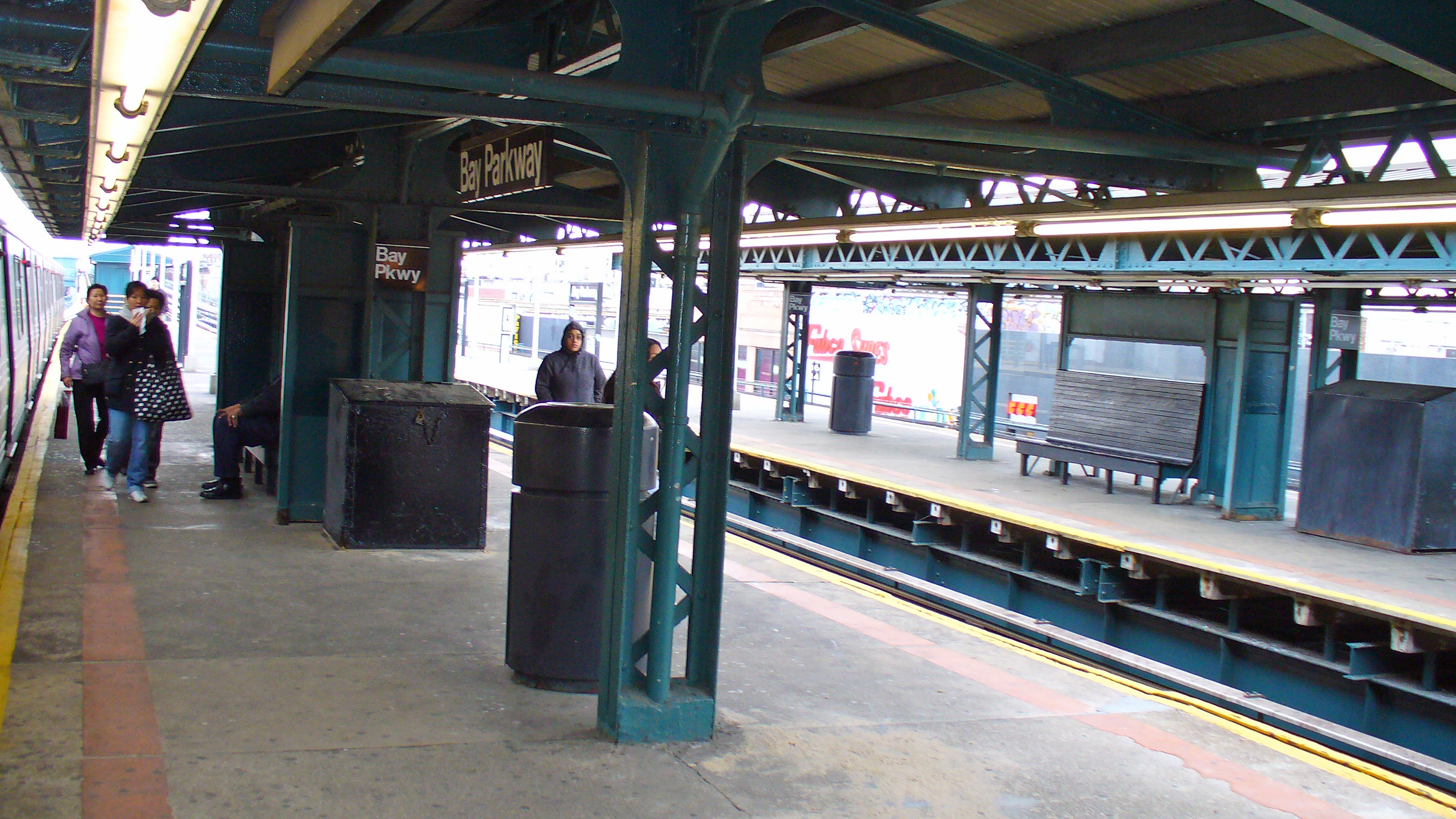 Bay Parkway D Line NYC Subway Station by David Shankbone